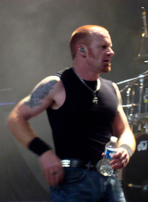 Matt Barlow during the show at Tyrol in Stockholm, Sweden.